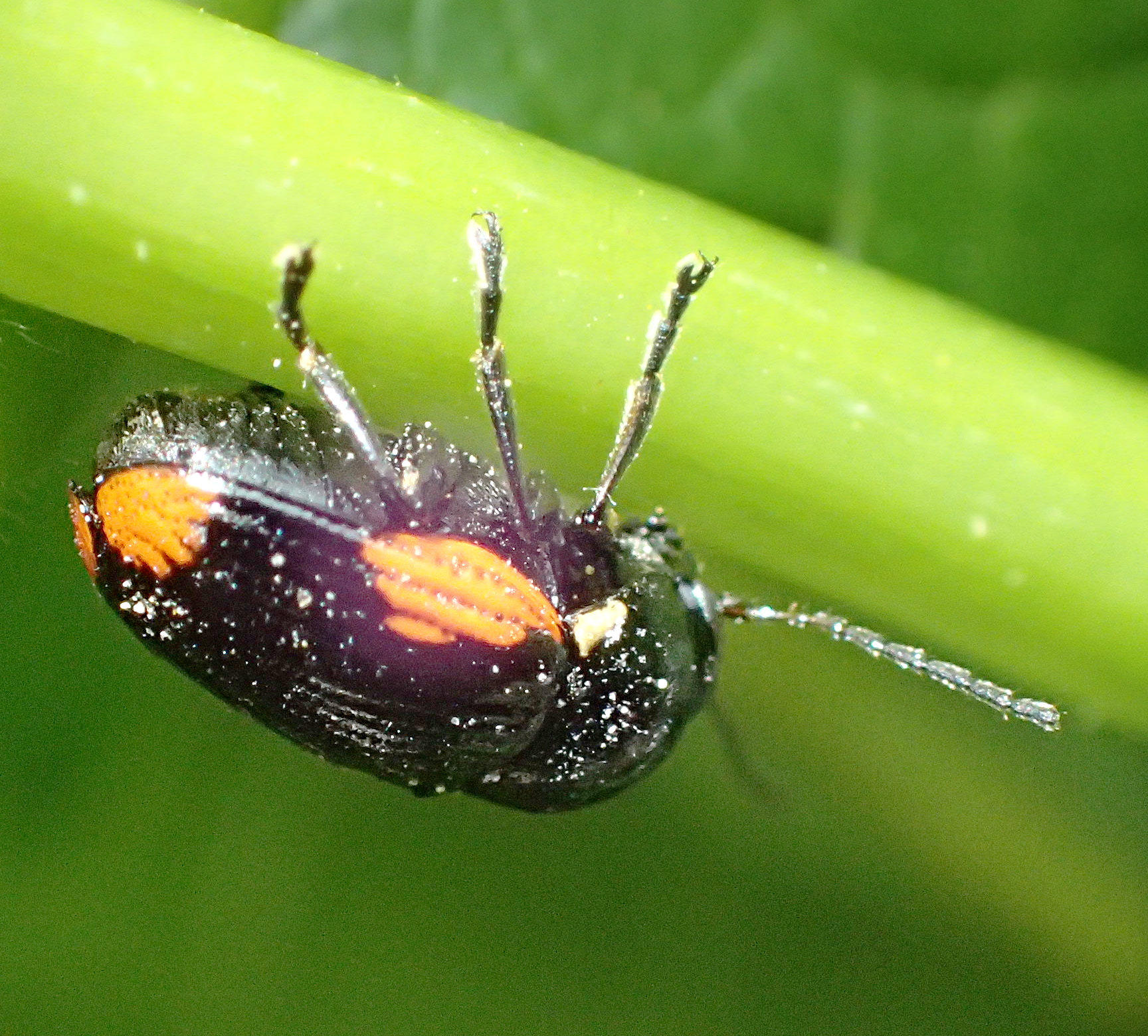 Cryptocephalus moraei from Greece, Peloponnese, Olympia at 2016-04-29